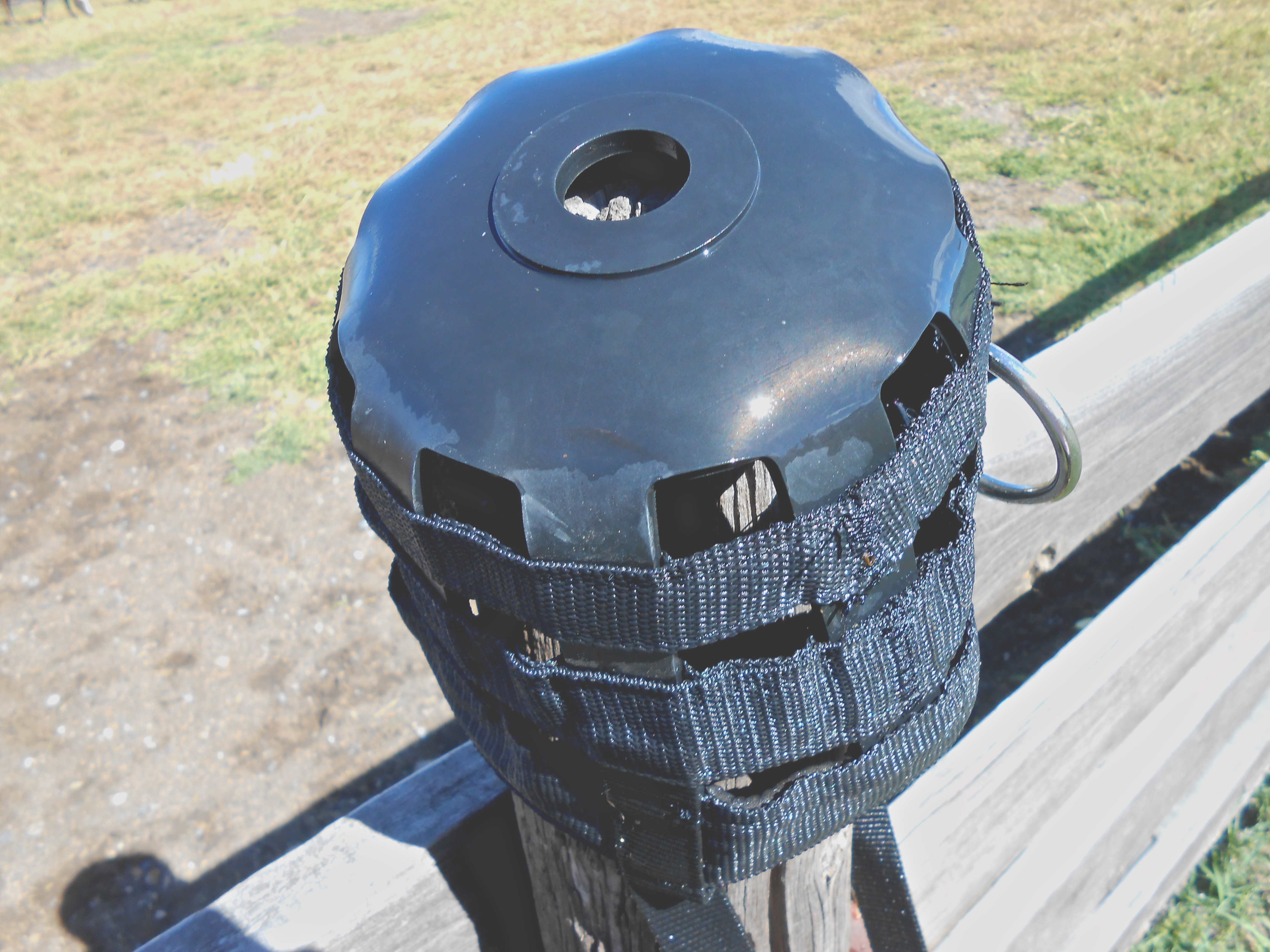 A grazing muzzle, prevents horses from overeating when on pasture. It has a small hole in the bottom that allows a small amount of grass to be consumed, thus meeting the horse's need to graze, and it also allows water to be consumed. It has a breakaway crownpiece on the headstall so that a horse is not trapped if the muzzle catches on an object.